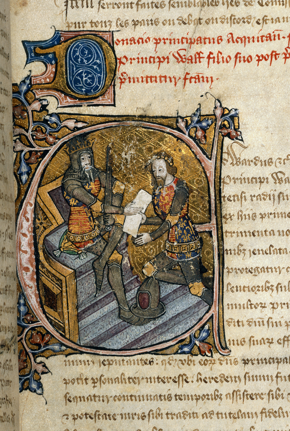 Black Prince receives Aquitaine (Detail) Initial E: King Edward III granting the Black Prince the principality of Aquitaine.